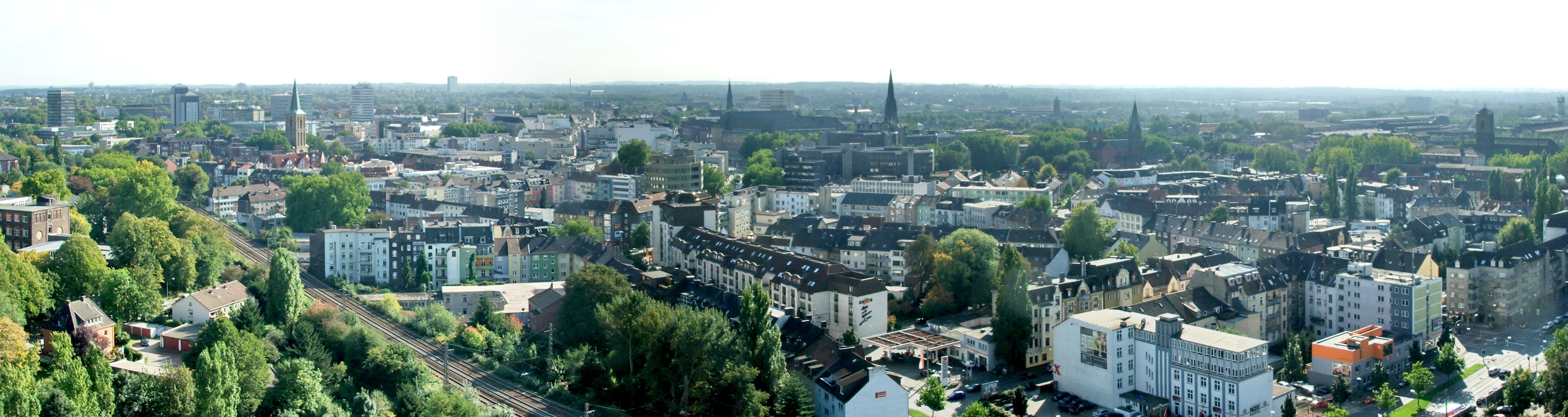 Innenstadt Bochum vom Bergbaumuseum Bochum aus gesehen This panoramic image was created with Autostitch (stitched images may differ from reality).